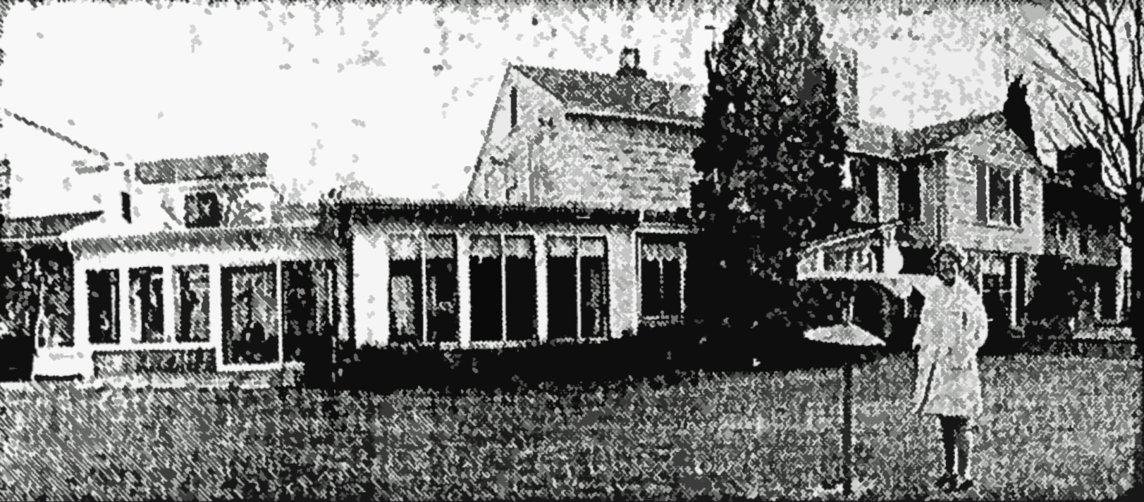 Mansion of Semon Emil "Bunkie" Knudsen in Birmingham, Michigan Cutout effect used on otherwise grainy (and very rare) photograph